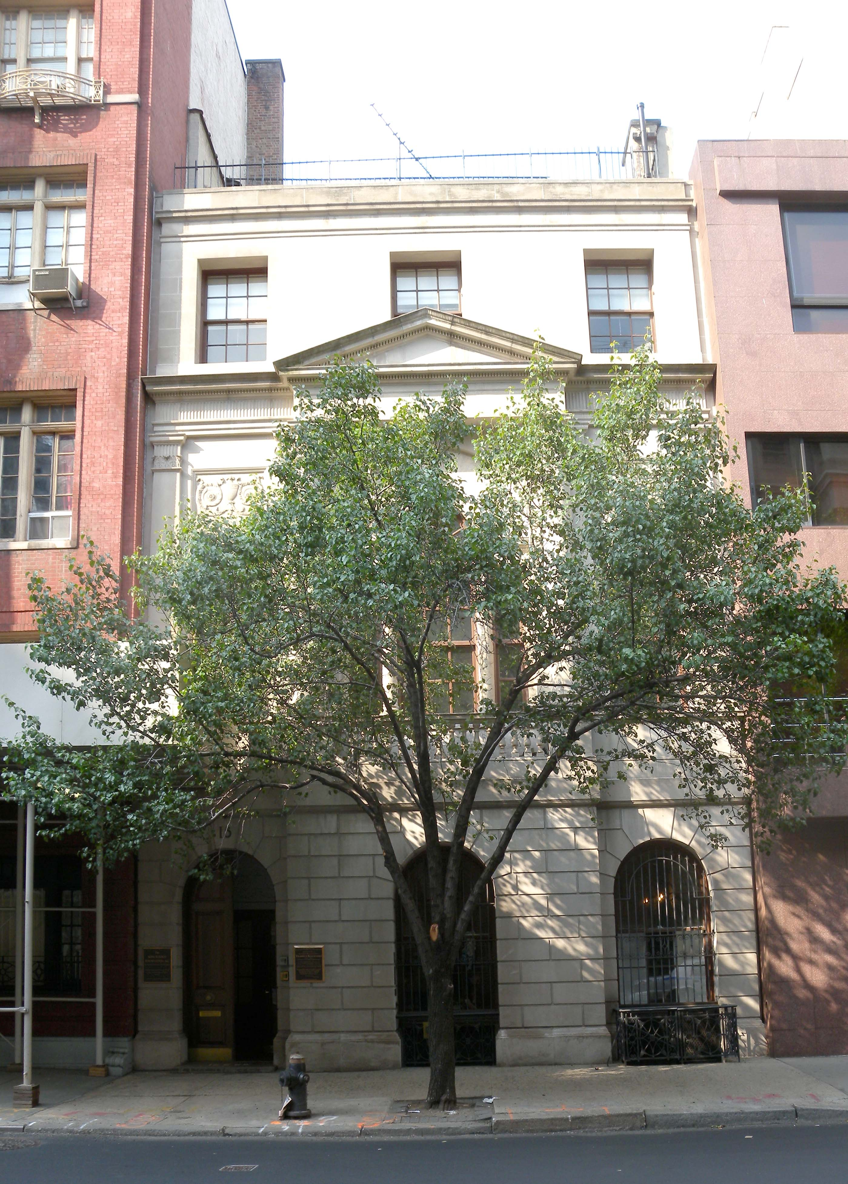 Looking north across East 65th Street at Kosciuszko Foundation, a former mansion designed by Harry Allan Jacobs, on a mostly sunny afternoon.